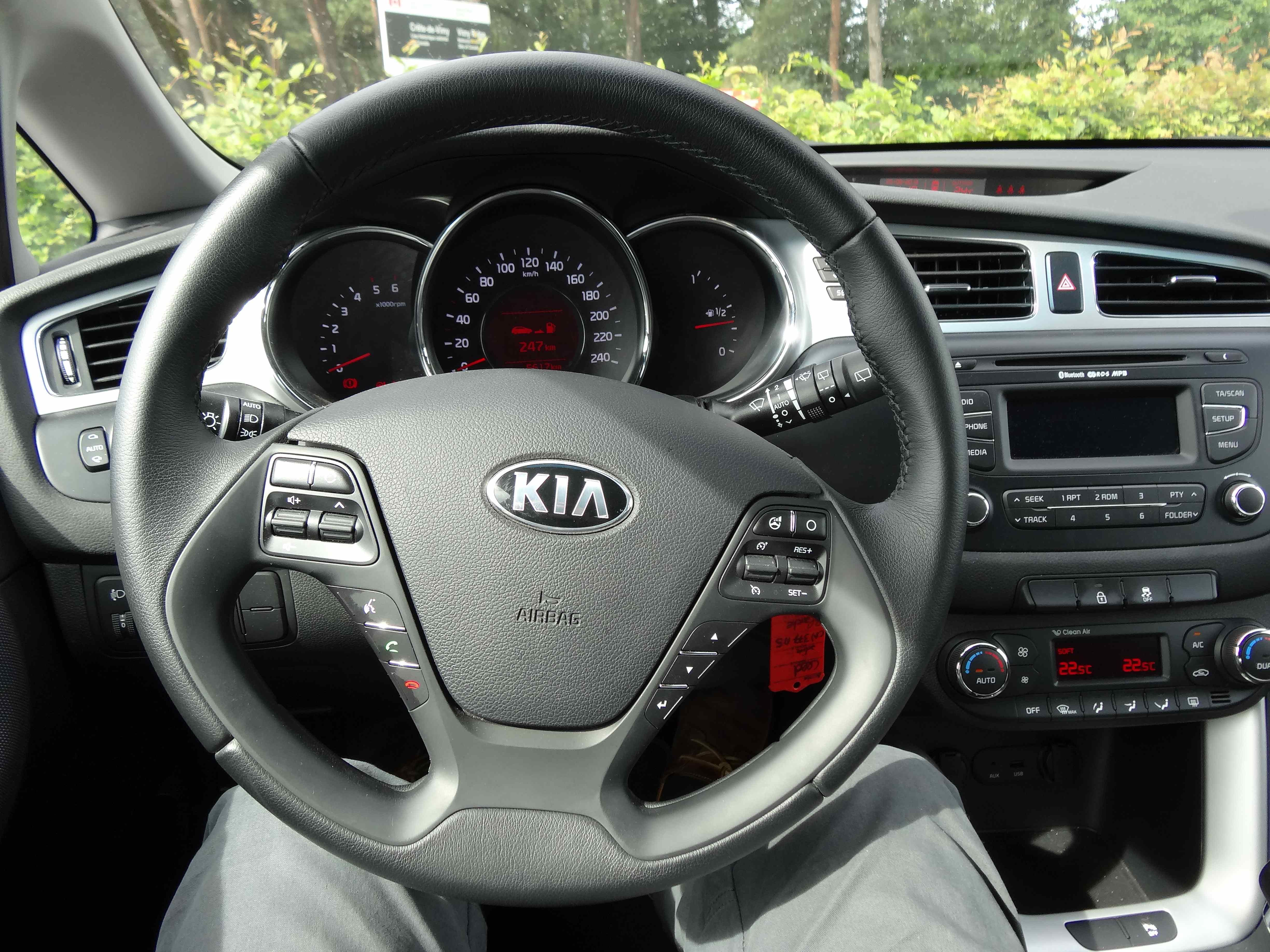 Kia cee'd active (2013)